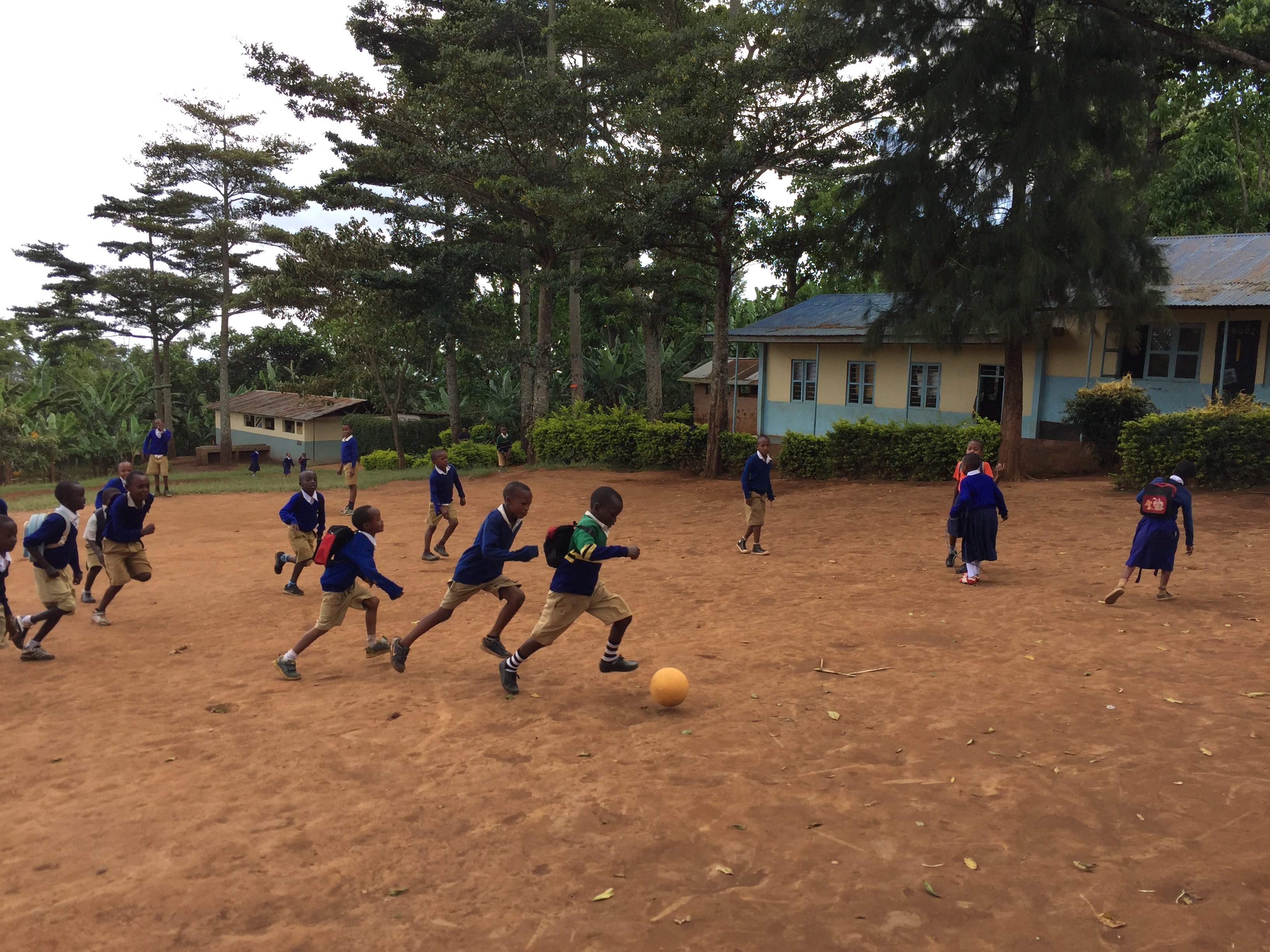 In Tanzania primary schools don't offer sports and games lessons, pupils have choices to choose between range of local and informally played games and sports. During break times a pupil can choose jumping rope, mixed unstructured soccer, back-carrying, on ground stone games, etc.. This is an image with the theme "Play" from: Tanzania